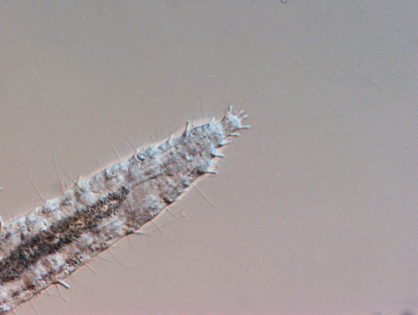 Macrodasys